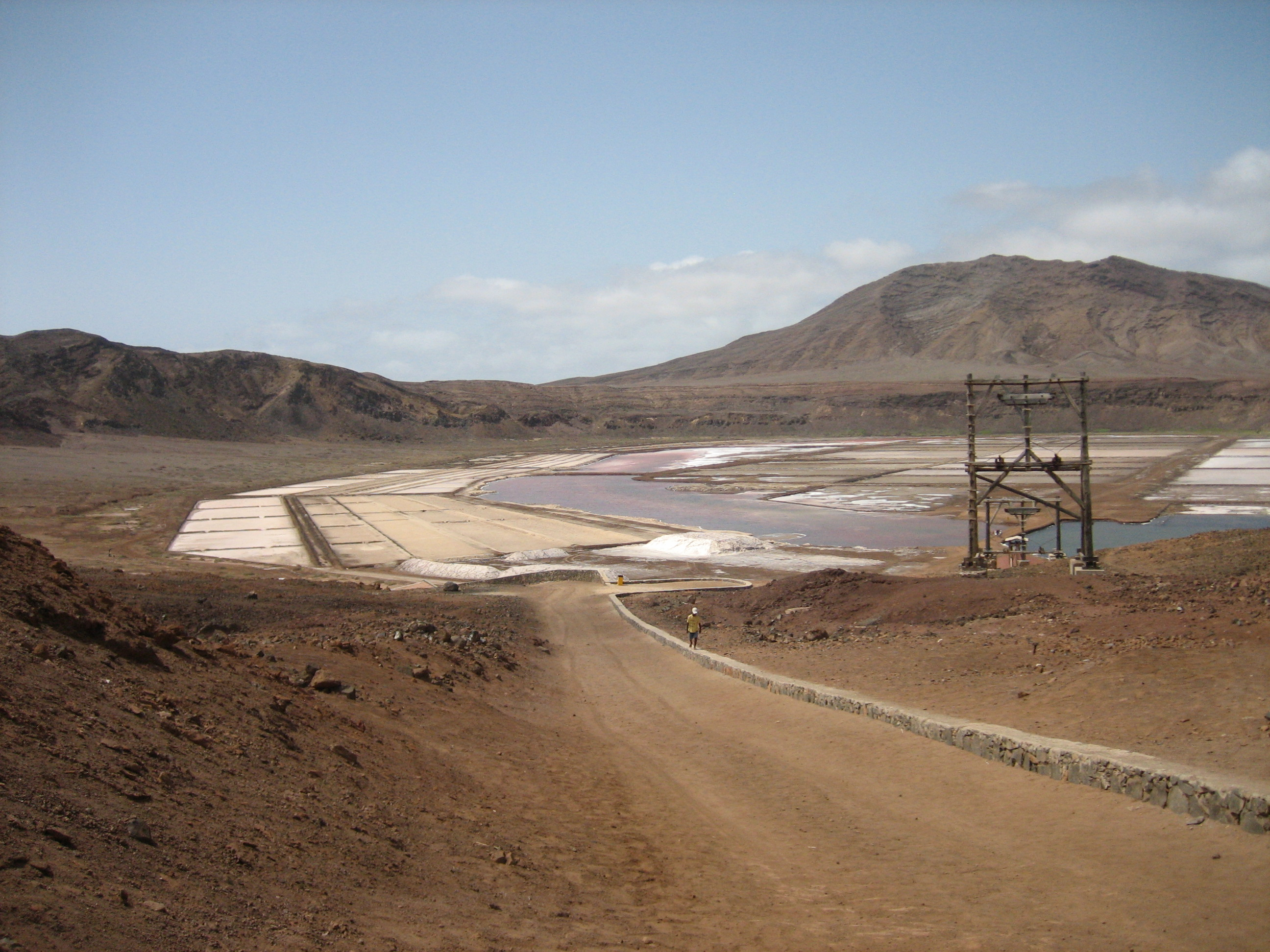 Overview of the saline at Pedra Lume on Sal, Cape Verde